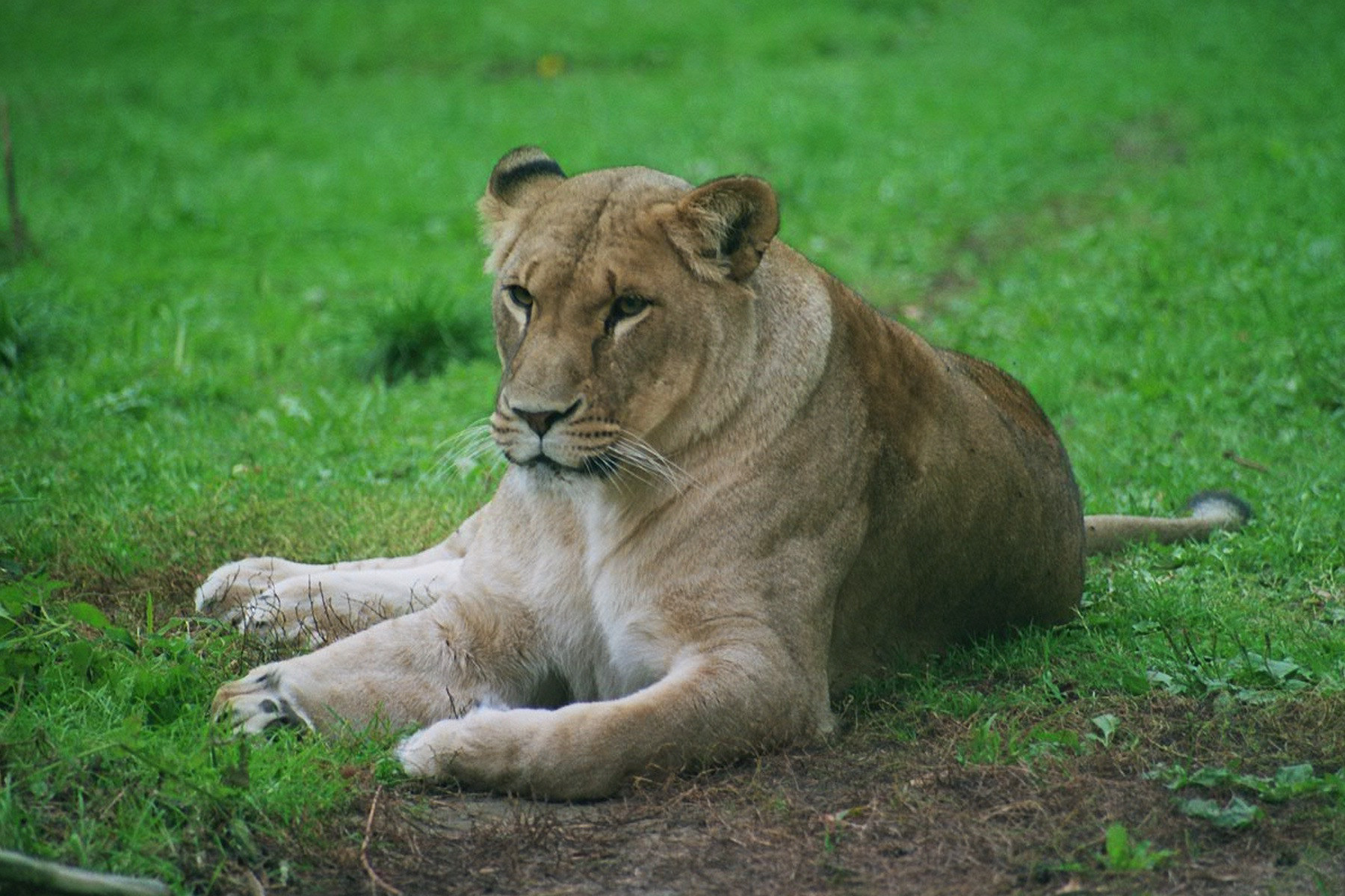 Zoo Rostock: Löwin (Panthera leo)